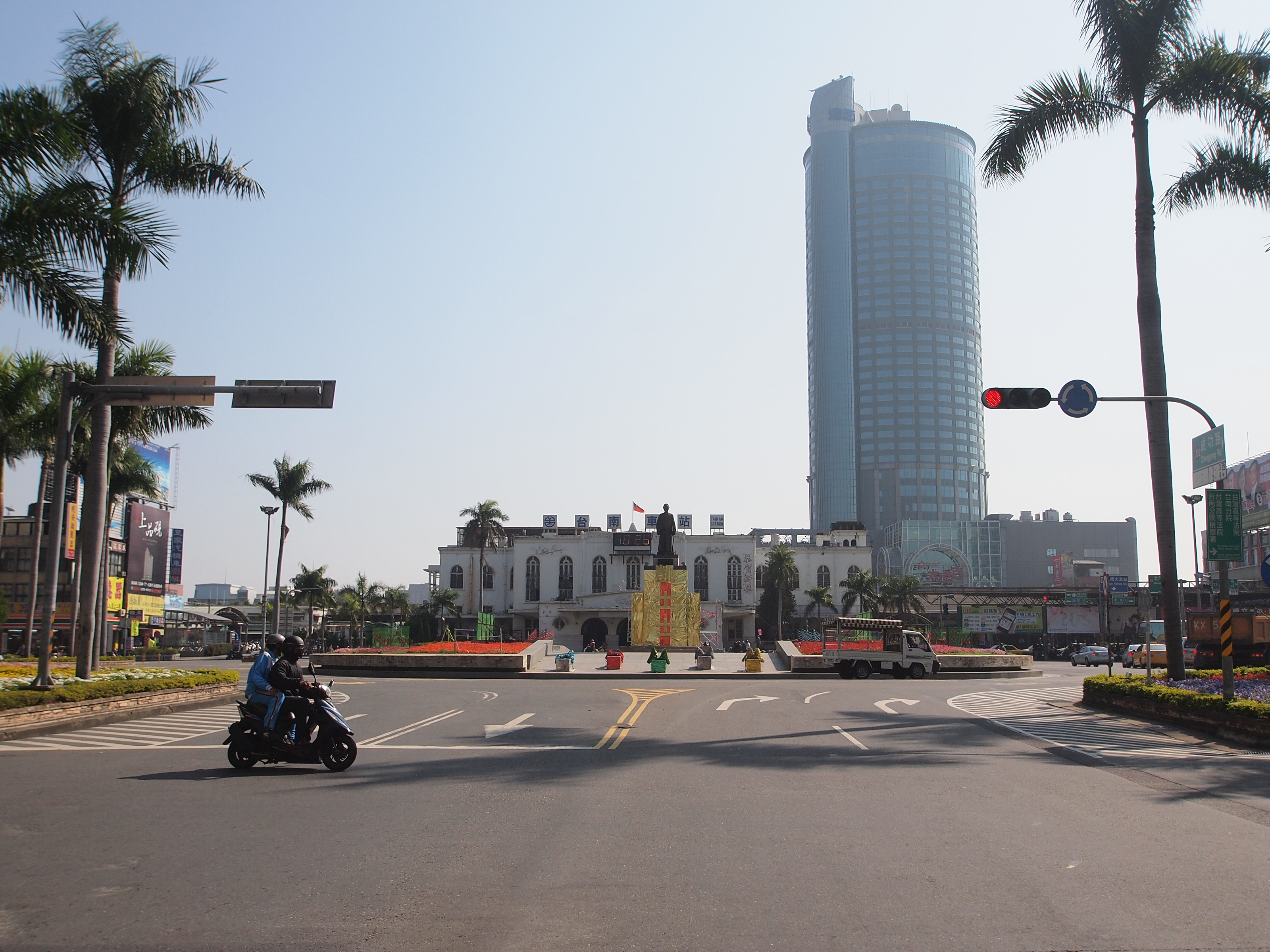 TRA Tainan Station and Shangri-La's Far Eastern Plaza Hotel Tainan.